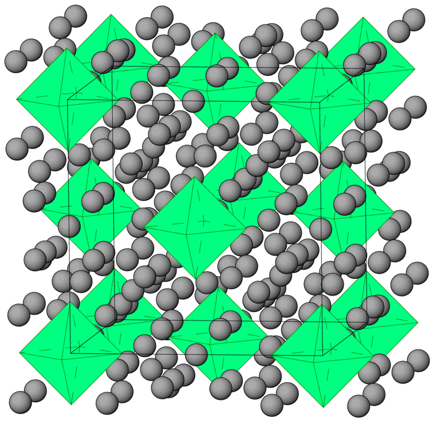 Face-centered cubic structure of Kr(H2)4 at 11.24 GPa. Isolated krypton octahedra (green) are located at each lattice point. Grey spheres represent rotationally disordered hydrogen molecules.